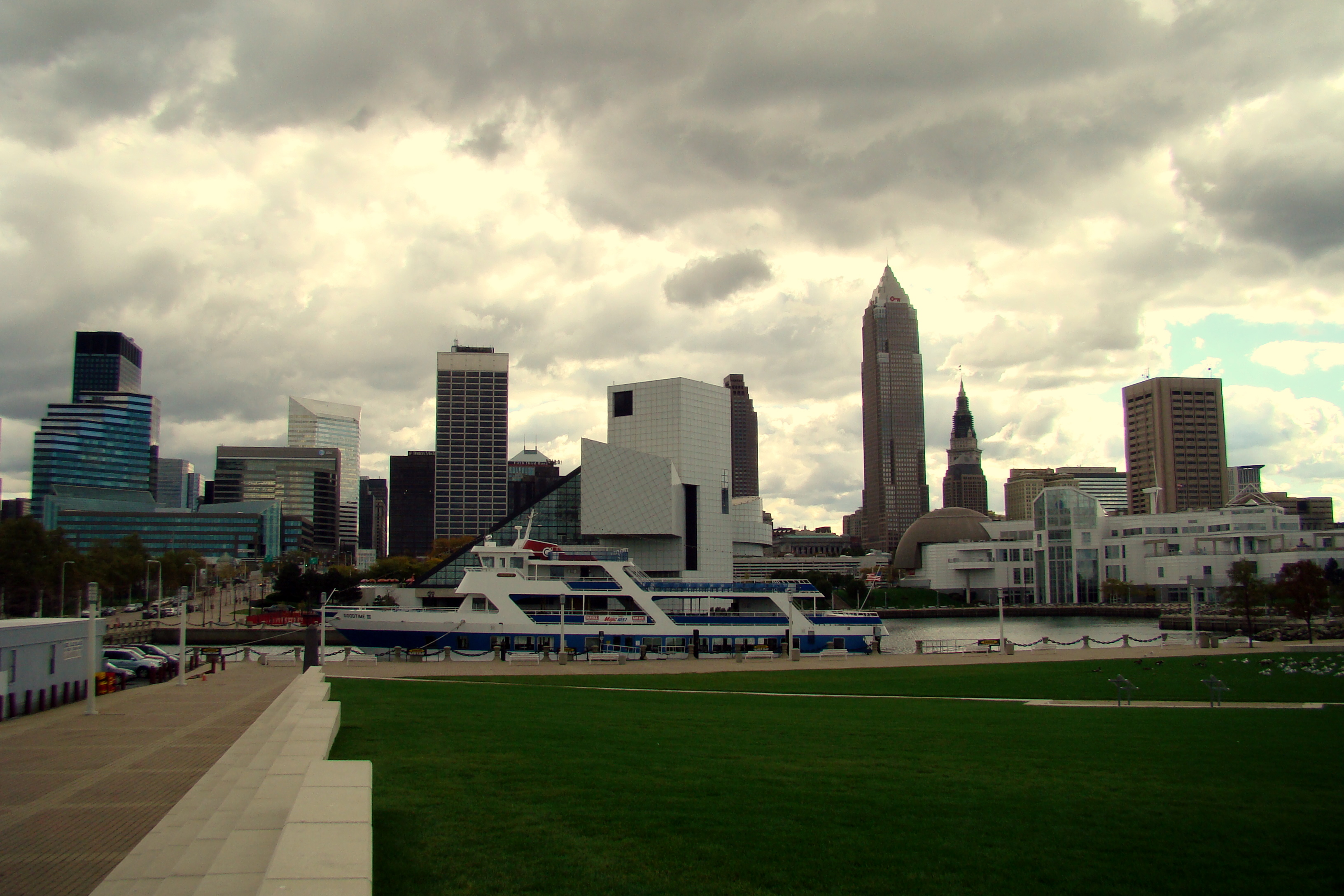 Cleveland at a glance by Lovleet